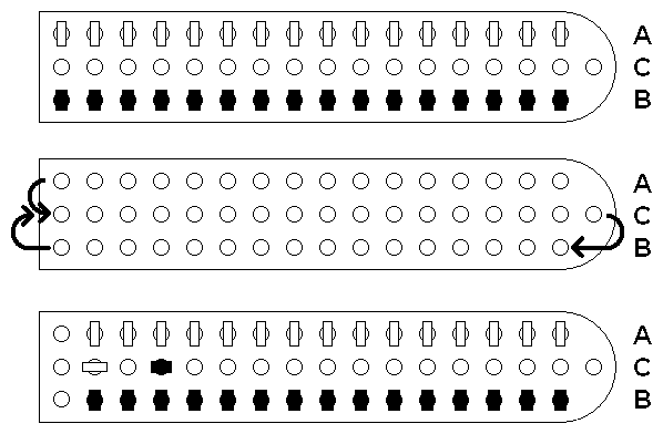 Diagram of the Danish/Norwegian board game Daldøs/Daldøsa